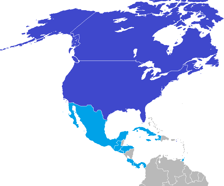 Map of the participating national football teams of the CONCACAF Gold Cup 2015.